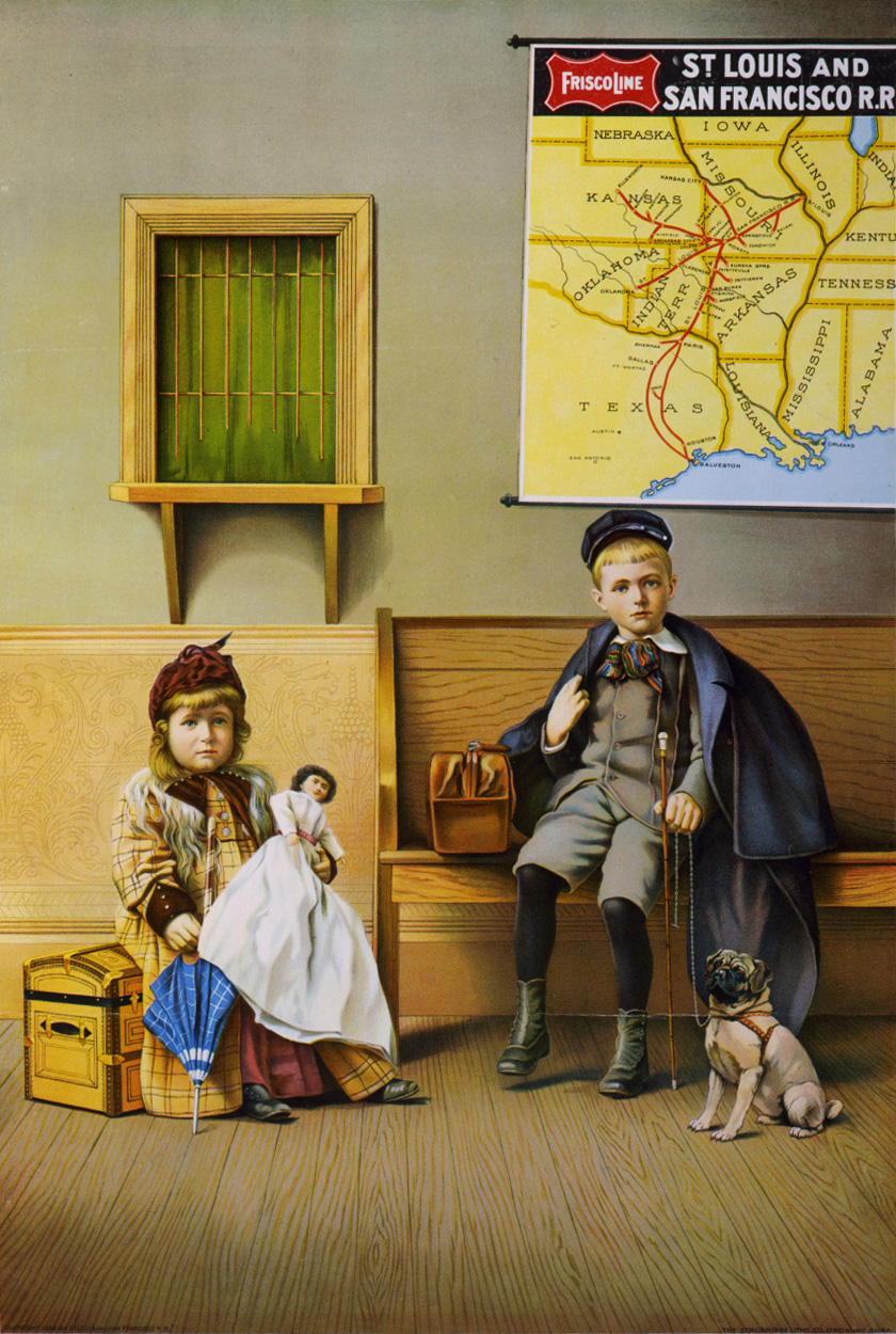 Girl holding doll and boy with dog in waiting room at railroad station.